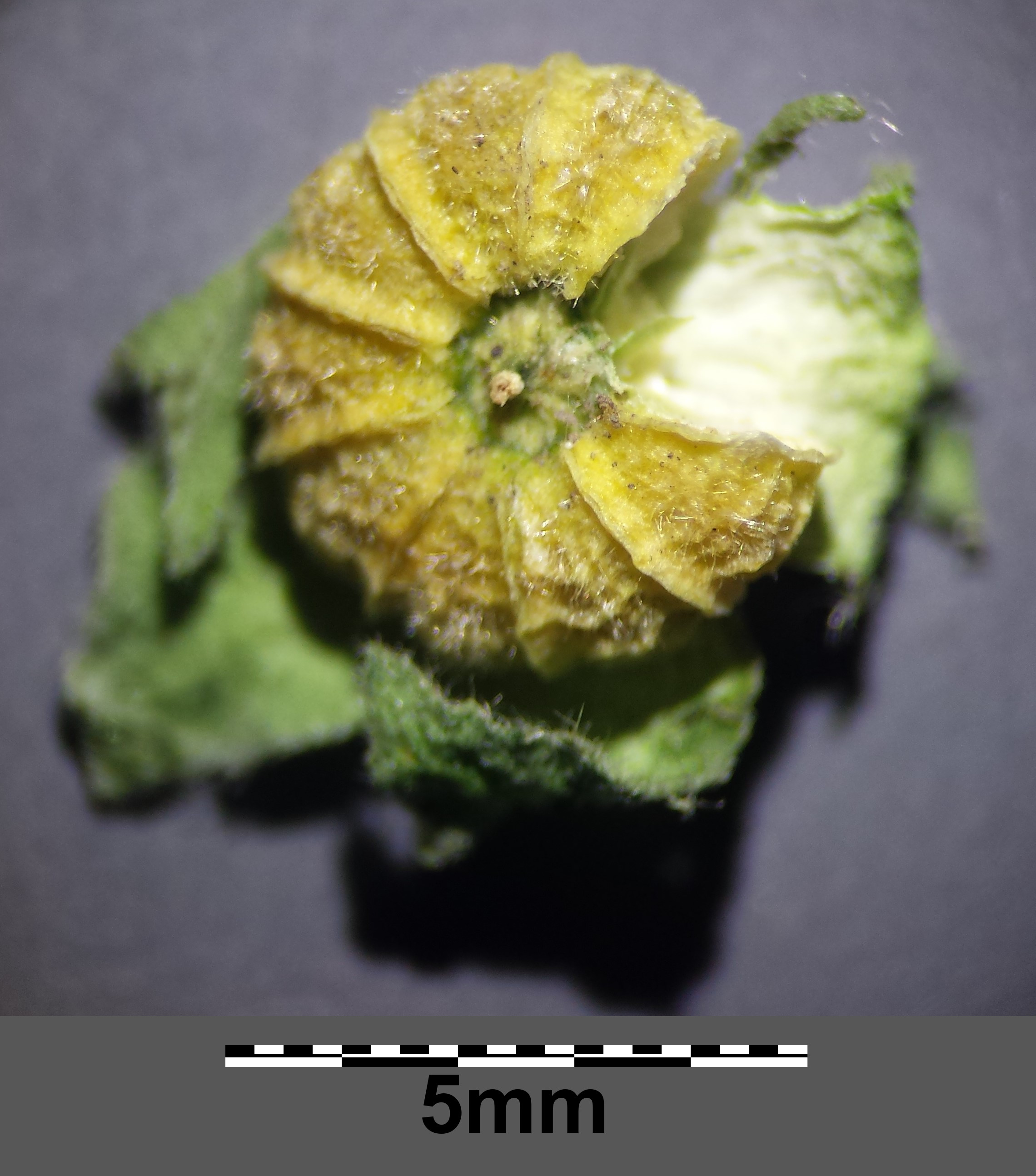 Fruit Taxonym: Malva pusilla ss Fischer et al. EfÖLS 2008 ISBN 978-3-85474-187-9 Location: Mitterluss near Zurndorf, district Neusiedl am See, Burgenland, Austria - ca. 130 m a.s.l. Habitat: border of a way/field